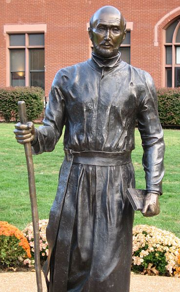 Bronze statue of Saint Ignatius in the quadrangle behind the administration building, taken October 25, 2005.